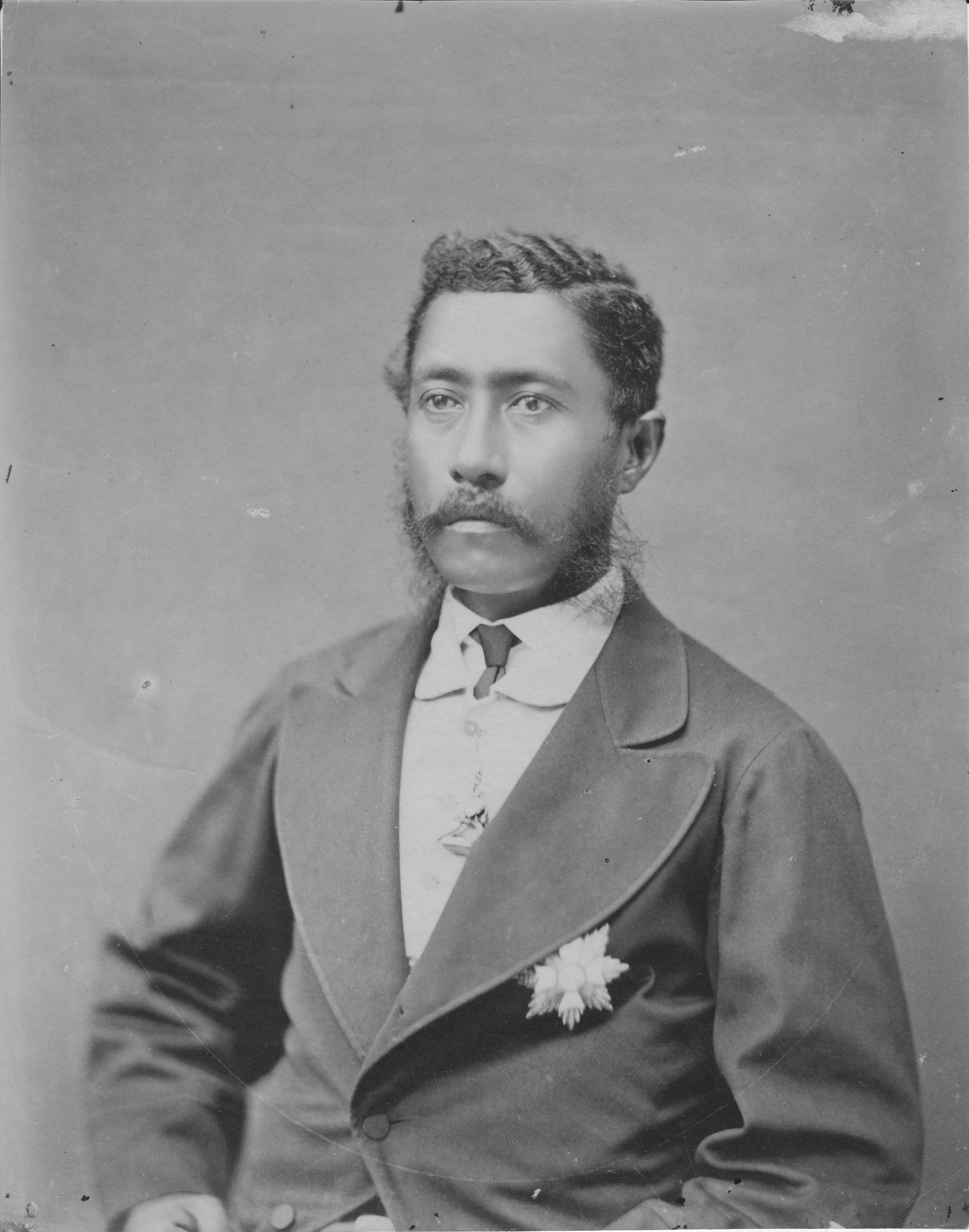 King William Charles Lunalilo